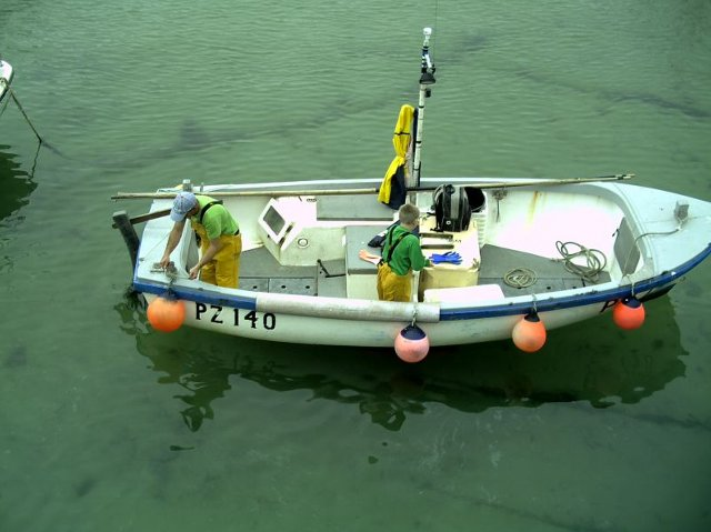 Cornish fishermen and fisherboys :P